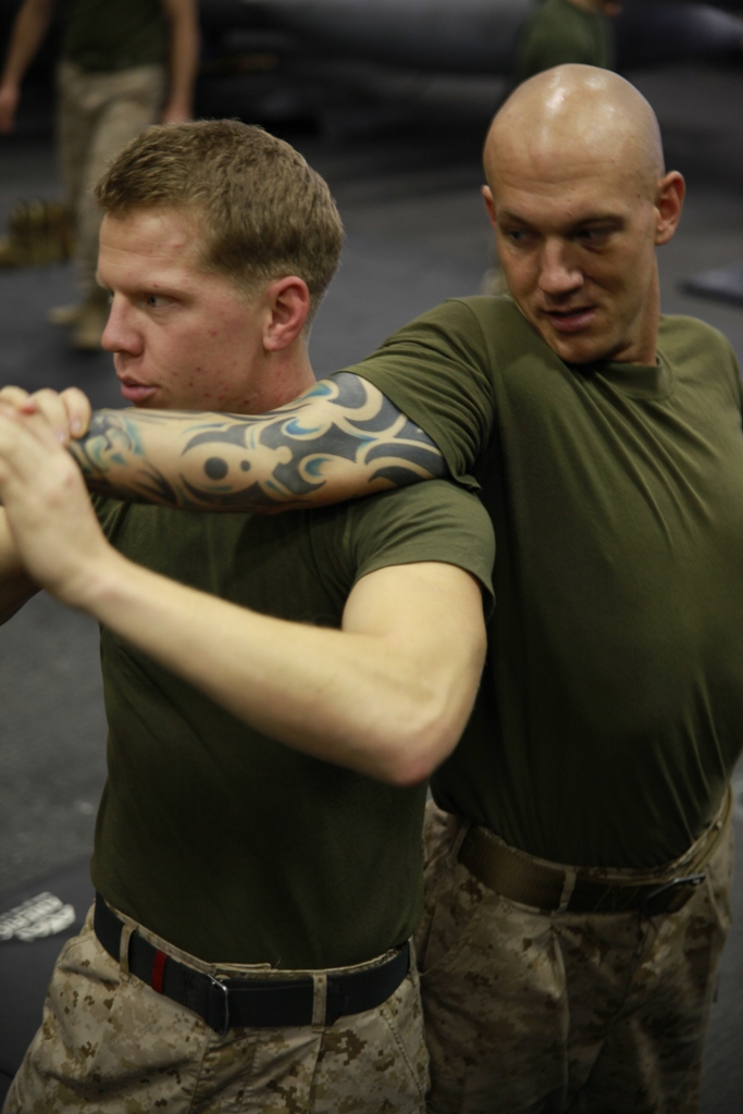 Sgt. Richard J. Andis, left, and Cpl. Andrew J. Comtois practice martial arts aboard amphibious assault ship USS Makin Island (LHD 8) Jan. 3. The Marines serve with the 11th Marine Expeditionary Unit's Battalion Landing Team 3/1. The 11th MEU is currently deployed as part of the Makin Island Amphibious Ready Group (MKIARG) as the U.S. Central Command theater reserve force, also providing support for maritime security operations and theater security cooperation efforts in the U.S. 5th Fleet area of responsibility.